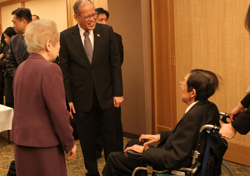 Shijūrō Ogata and Sadako Ogata met Benigno Aquino III, President, at the Imperial Hotel, Tokyo in Chiyoda Ward, Tōkyō Metropolis on December 14, 2013.